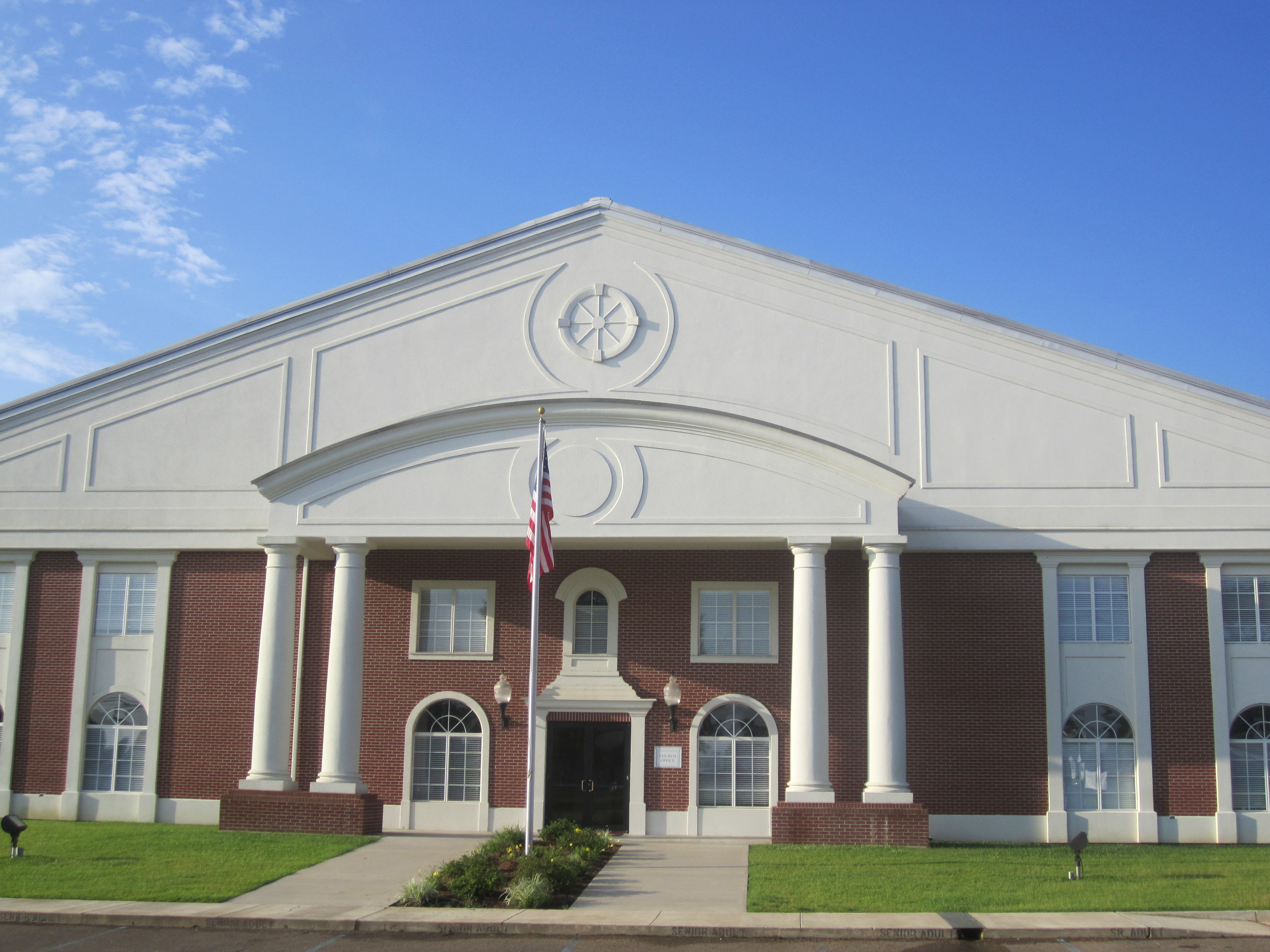 I took photo with Canon camera in Calhoun, LA.